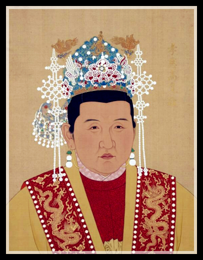 Portrait of Empress Xiaoci of Ming Dynasty China